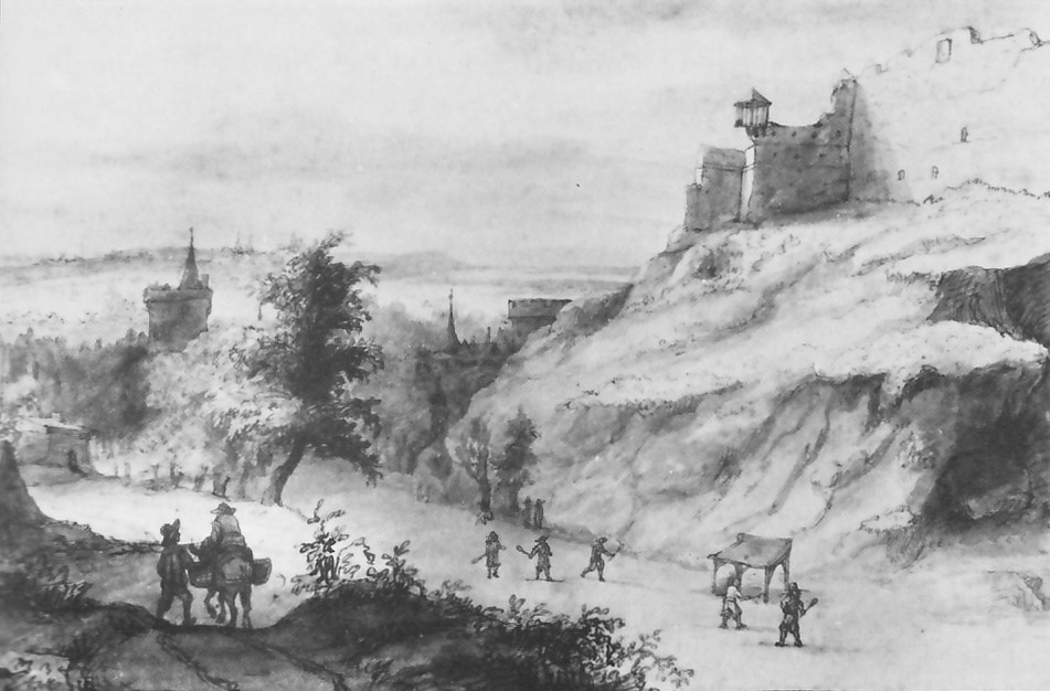 Jeu de la longue Paume (predecessor of Tennis), in the background Castle Saumur